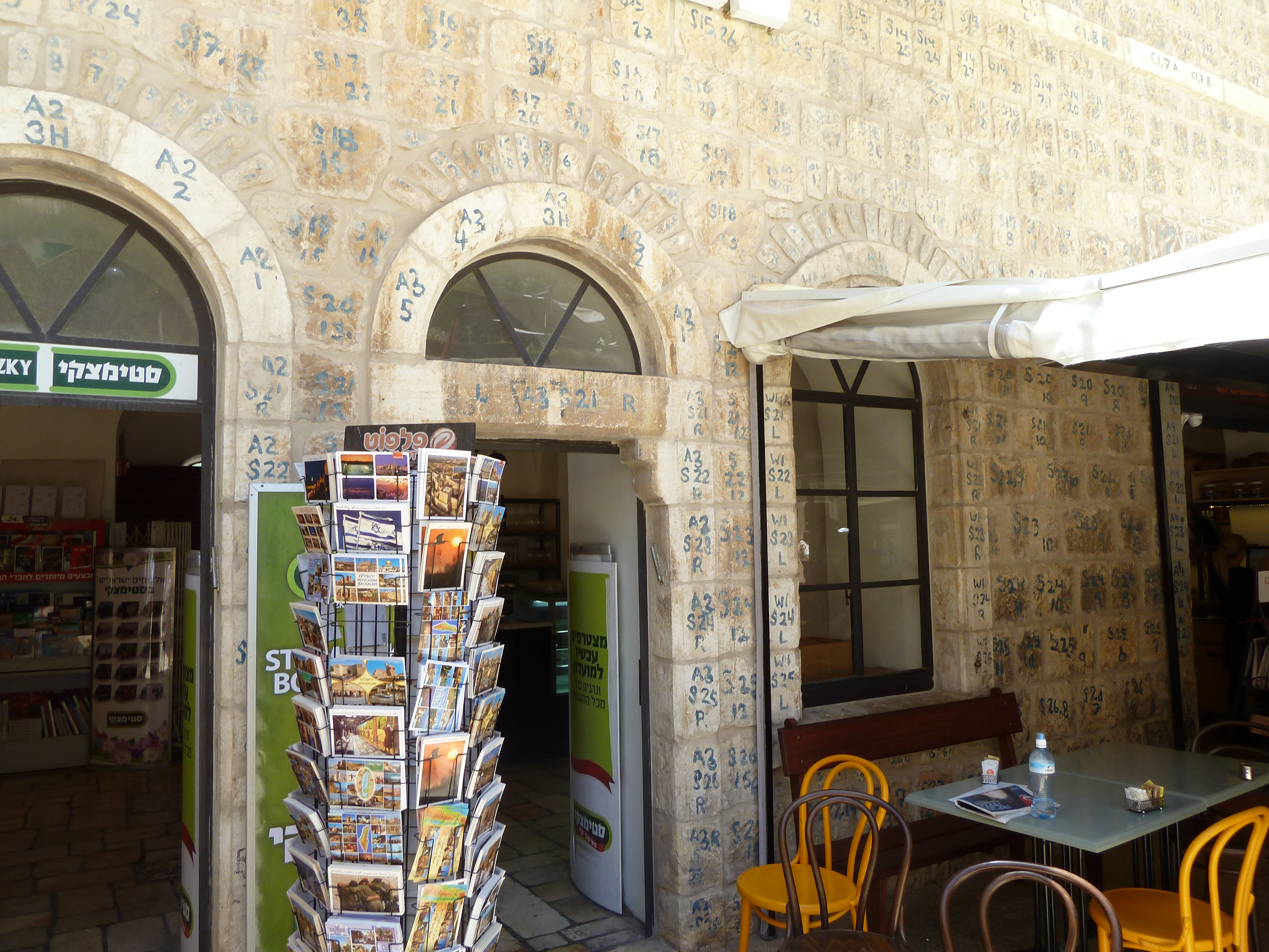 Jerusalem Mamilla Stern house numbered stones